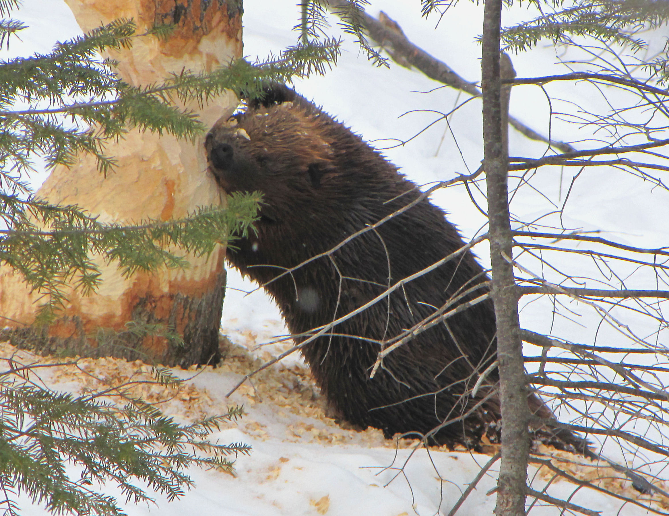 North American Beaver (Castor canadensis), tree cutting, Gatineau Park, Quebec, Canada.